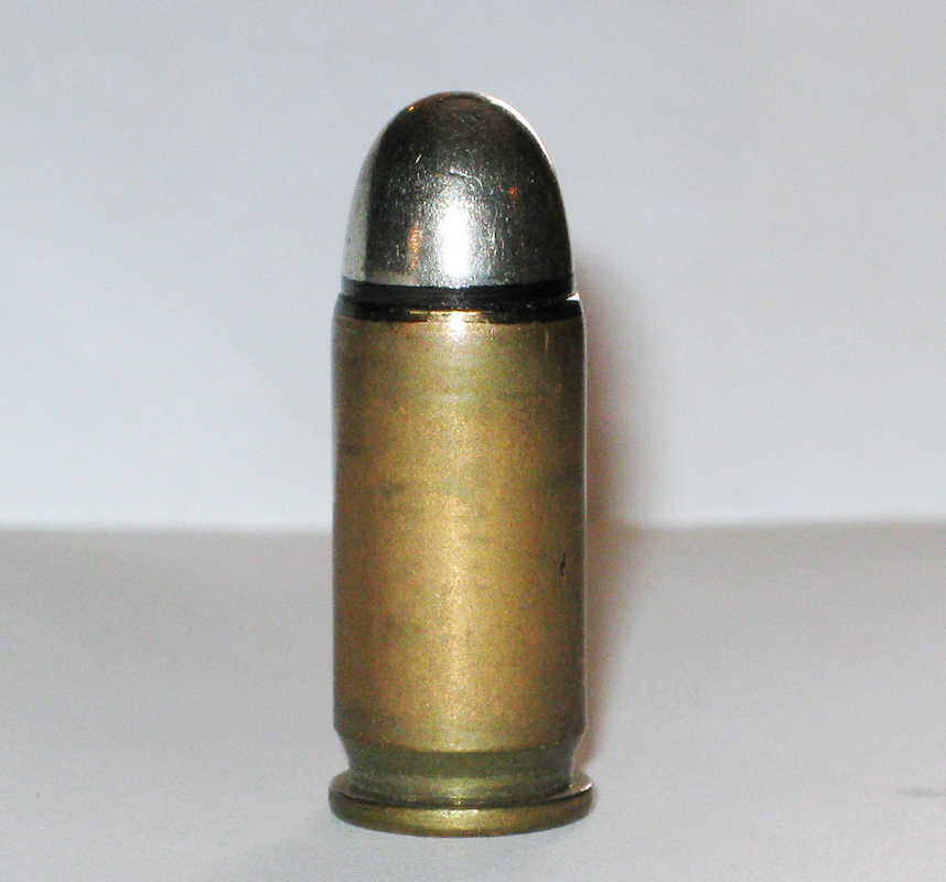 9 mm Browning Long cartridge, Swedish for M/07 pistol